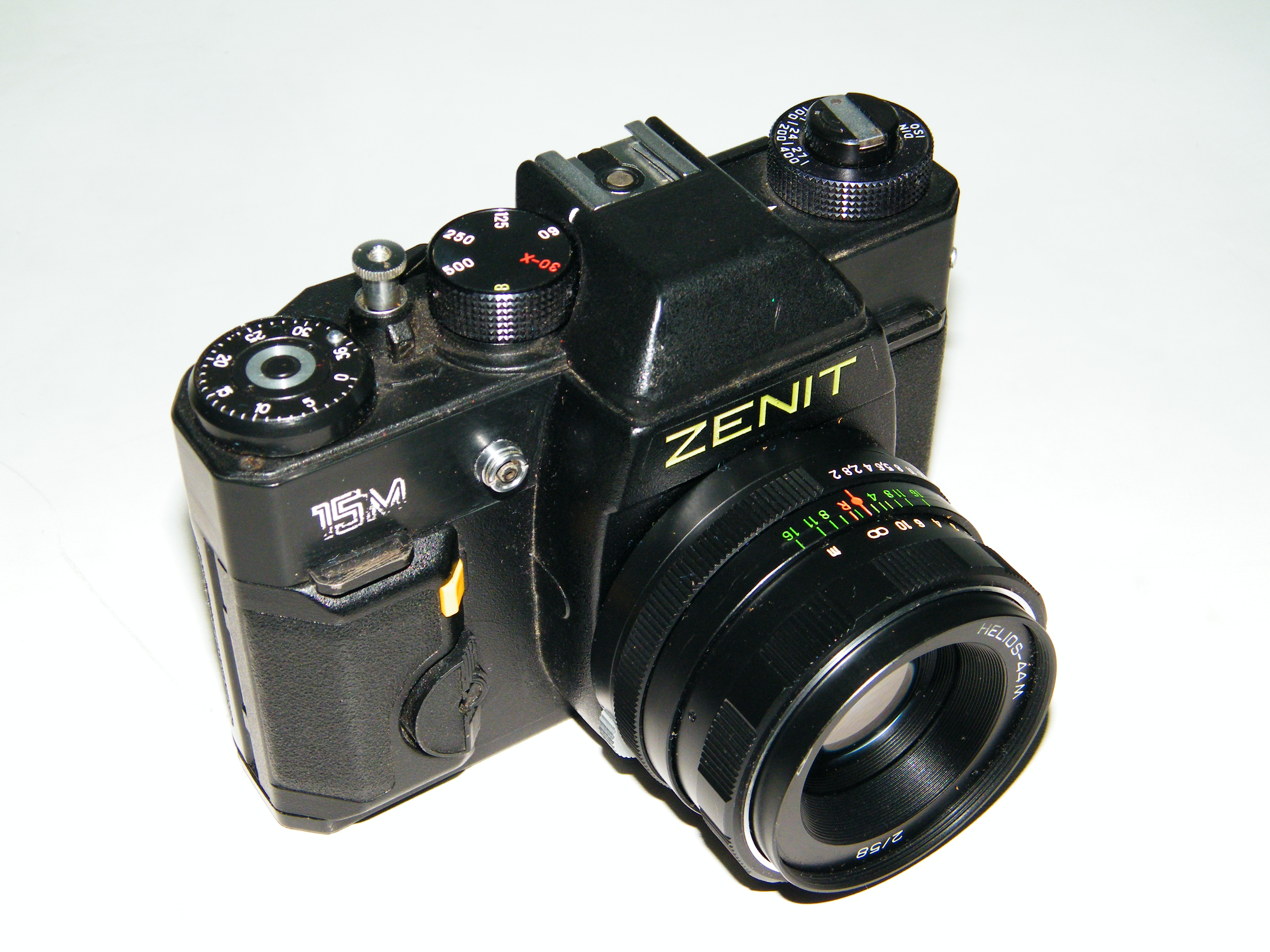 Зенит-15М БелОМО фото1 1994г